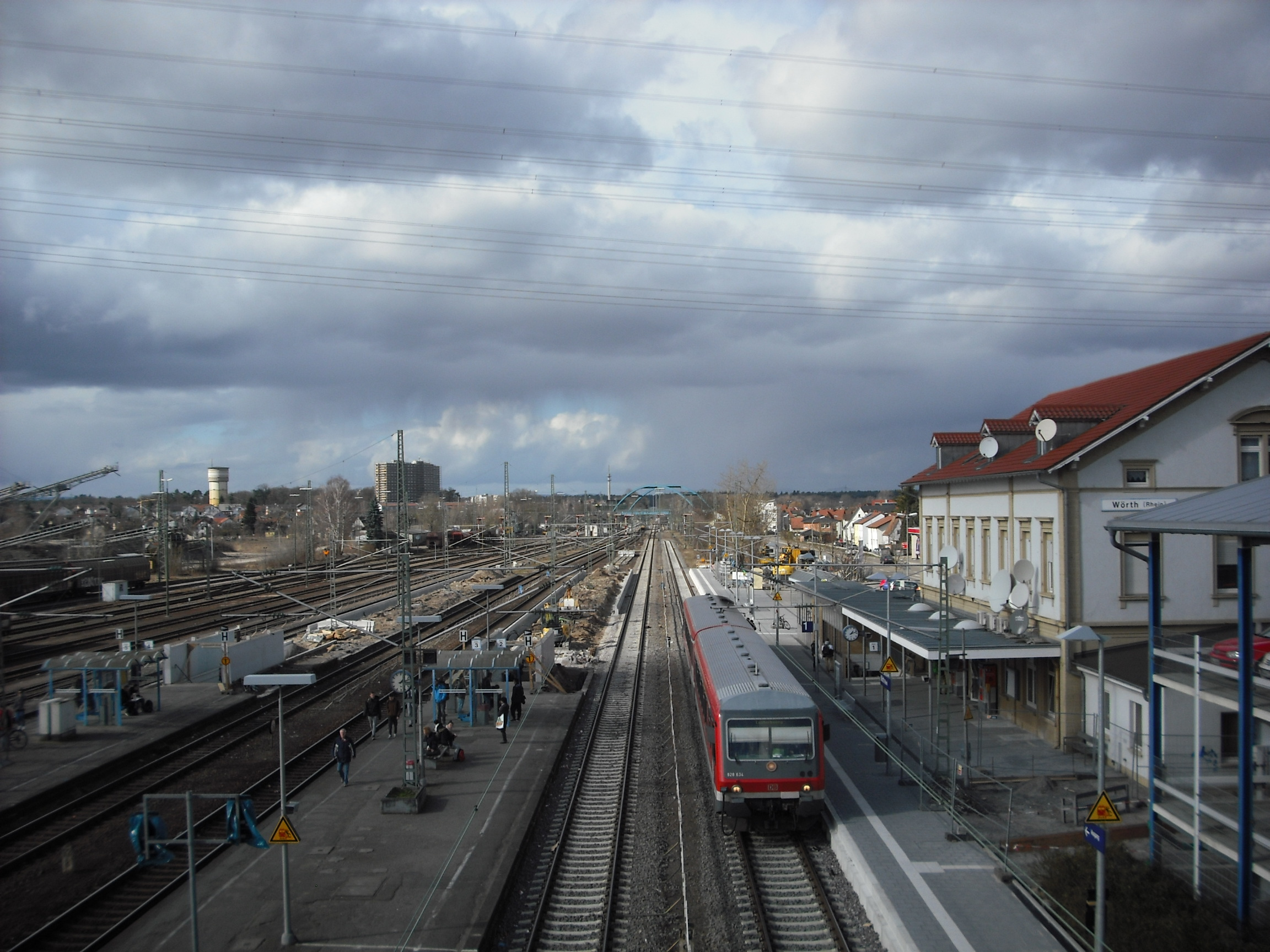 Woerth (Rhine) station